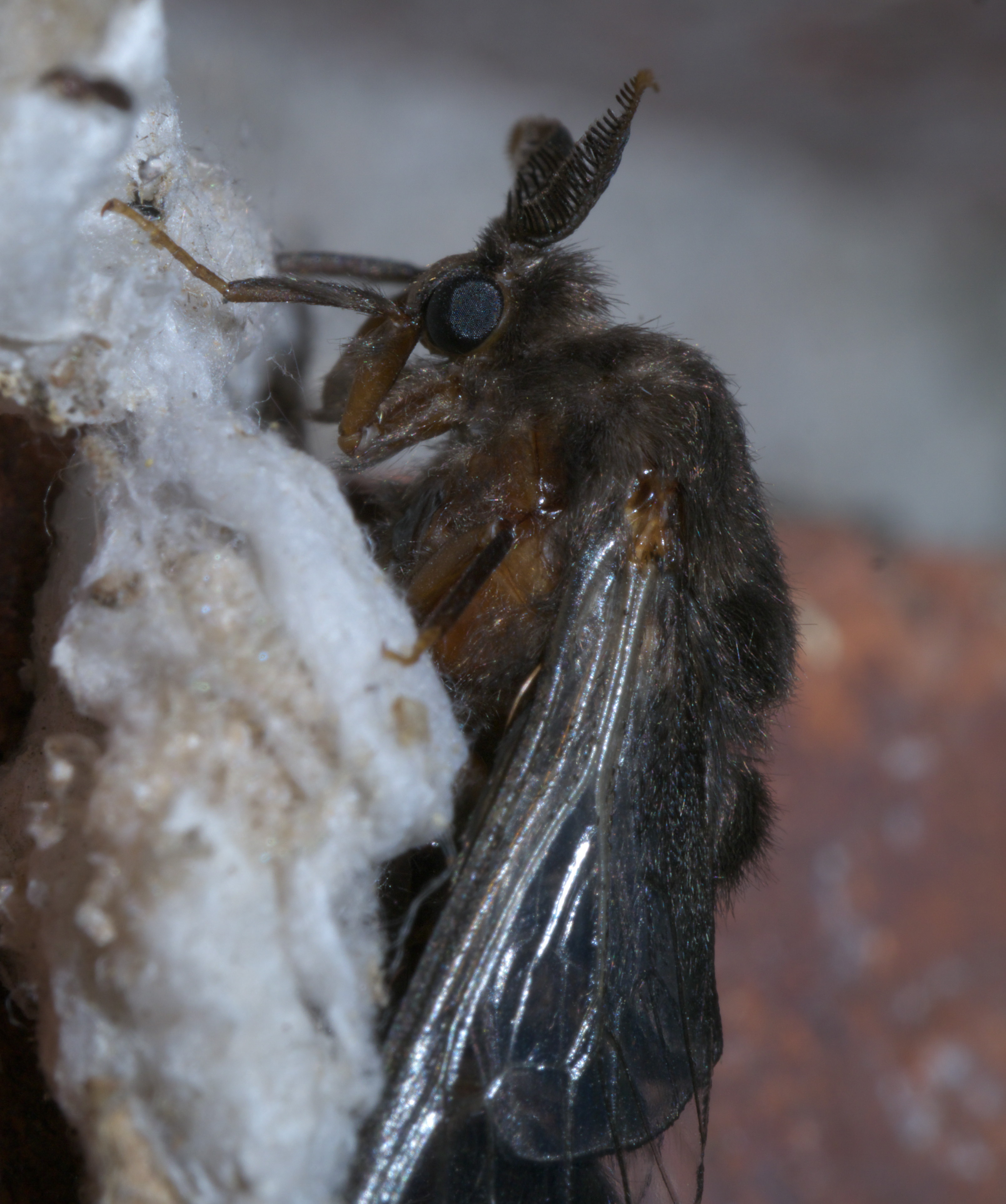 Thyridopteryx ephemeraeformis, evergreen bagworm, ID Confidence: 87